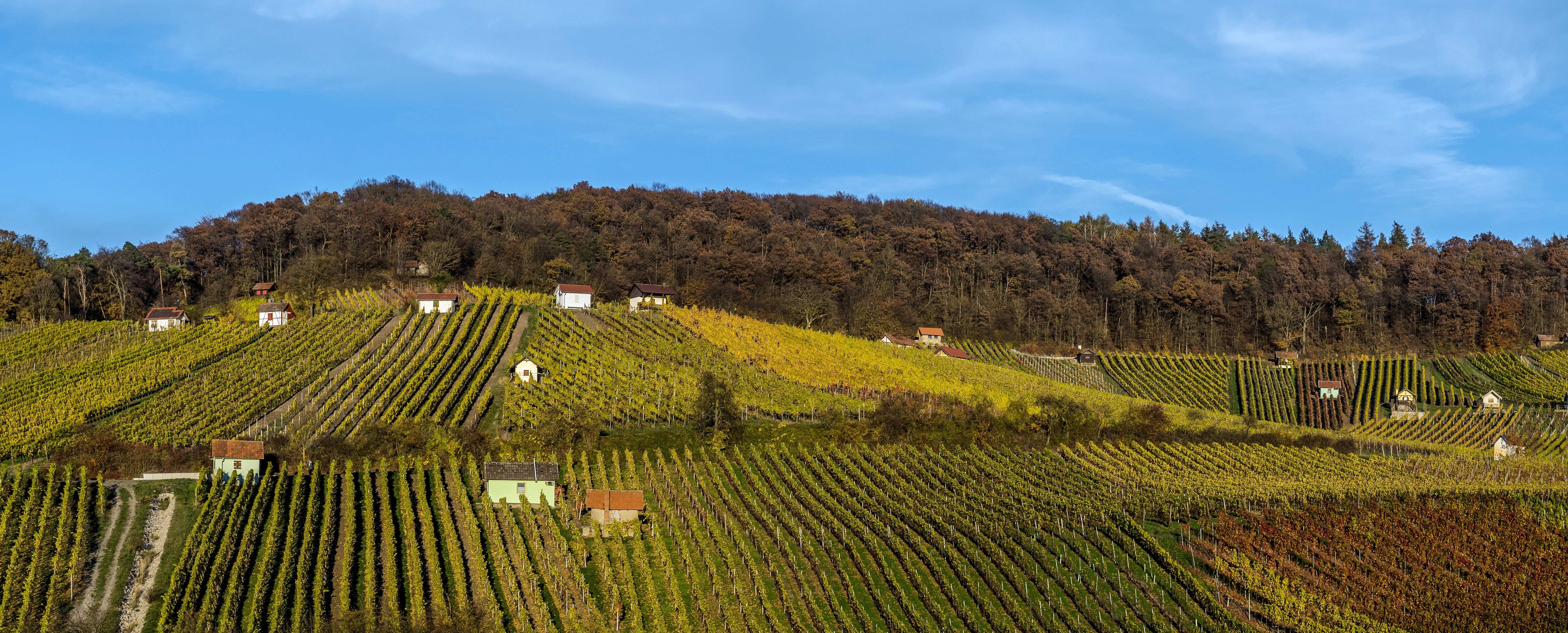 Donnersdorfer Falkenberg Panorama